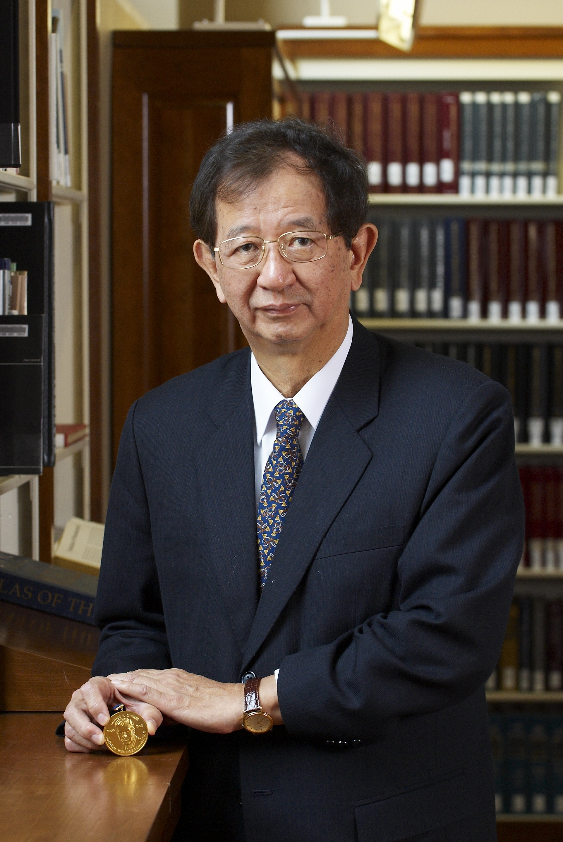 Photograph of chemist Yuan Tseh Lee, with the Othmer Gold Medal, awarded 15 May 2008, at the Chemical Heritage Foundation.